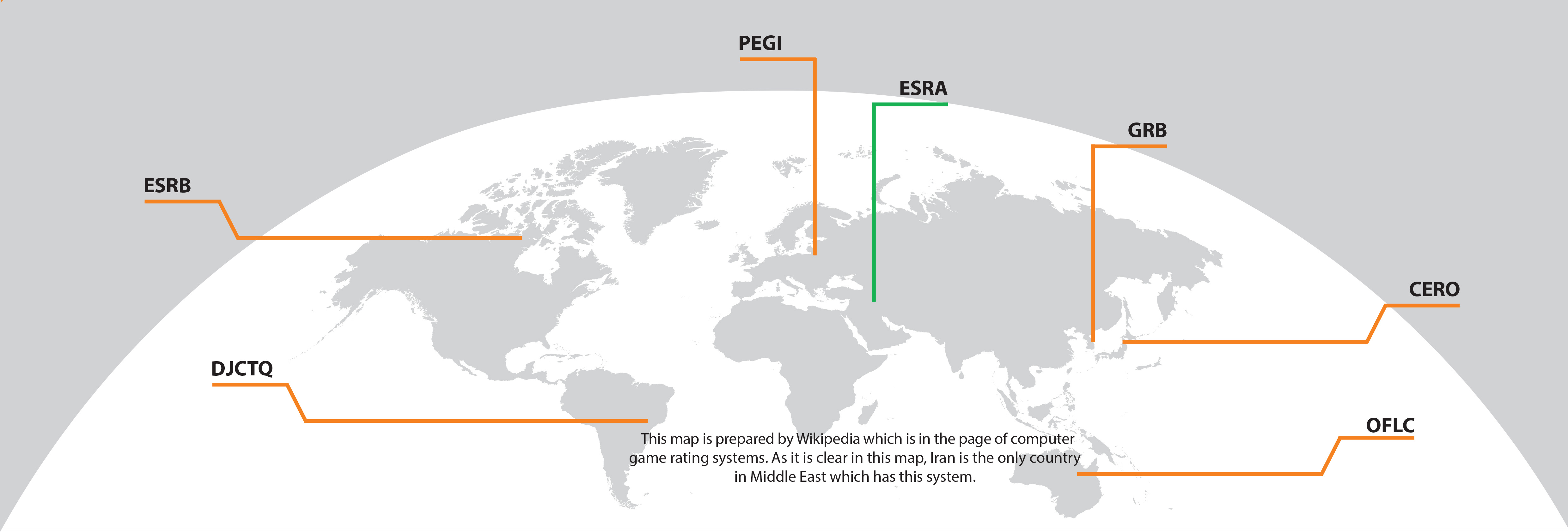 map map